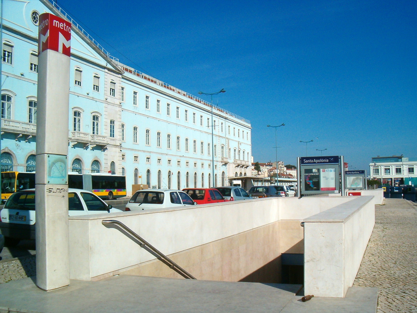 Metro station Santa Apolónia (Lisboa)